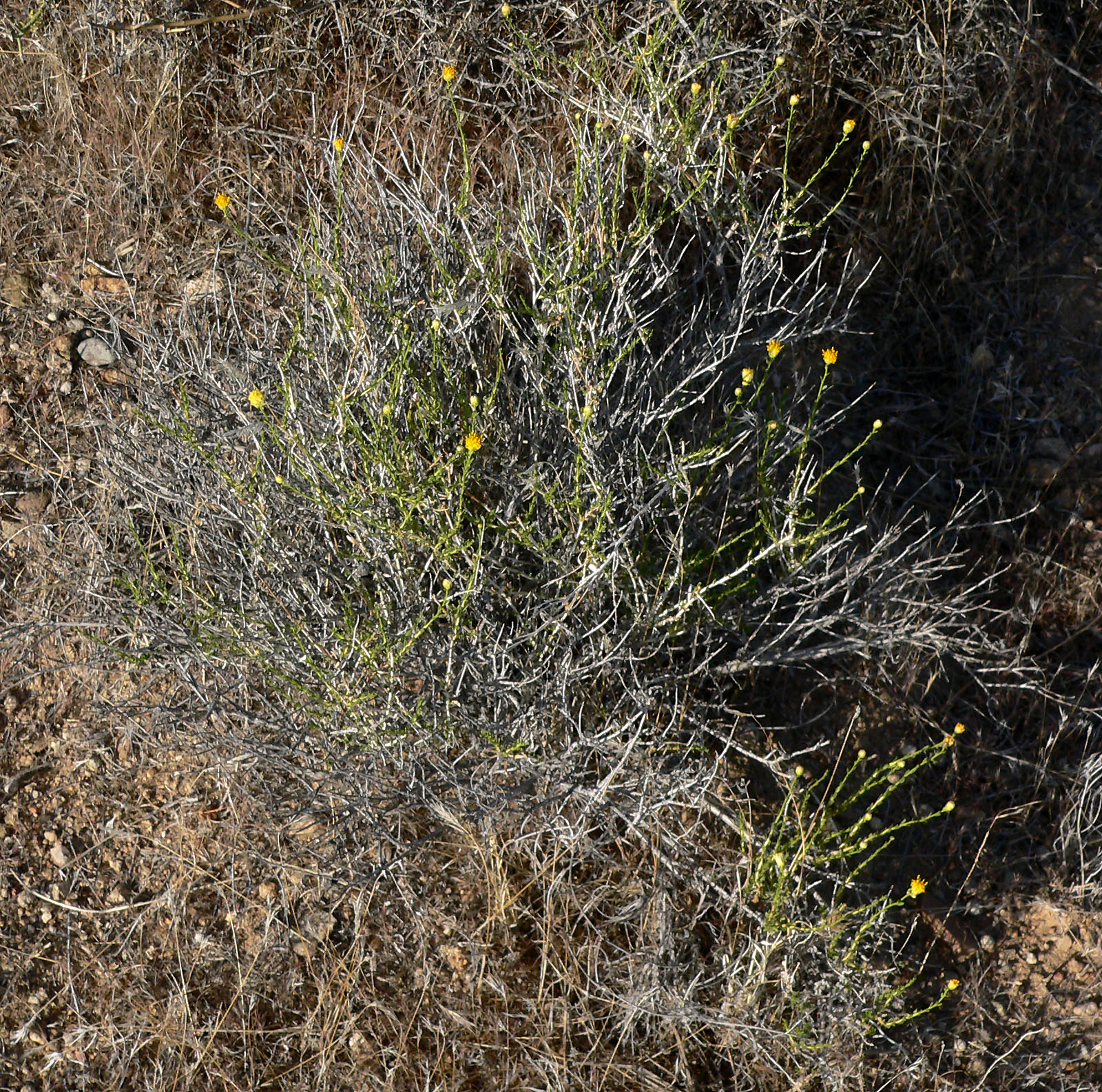 Acamptopappus sphaerocephalus just off the Nipton-Searchlight road (route 164) near the Wee Thump Wilderness, southern Nevada